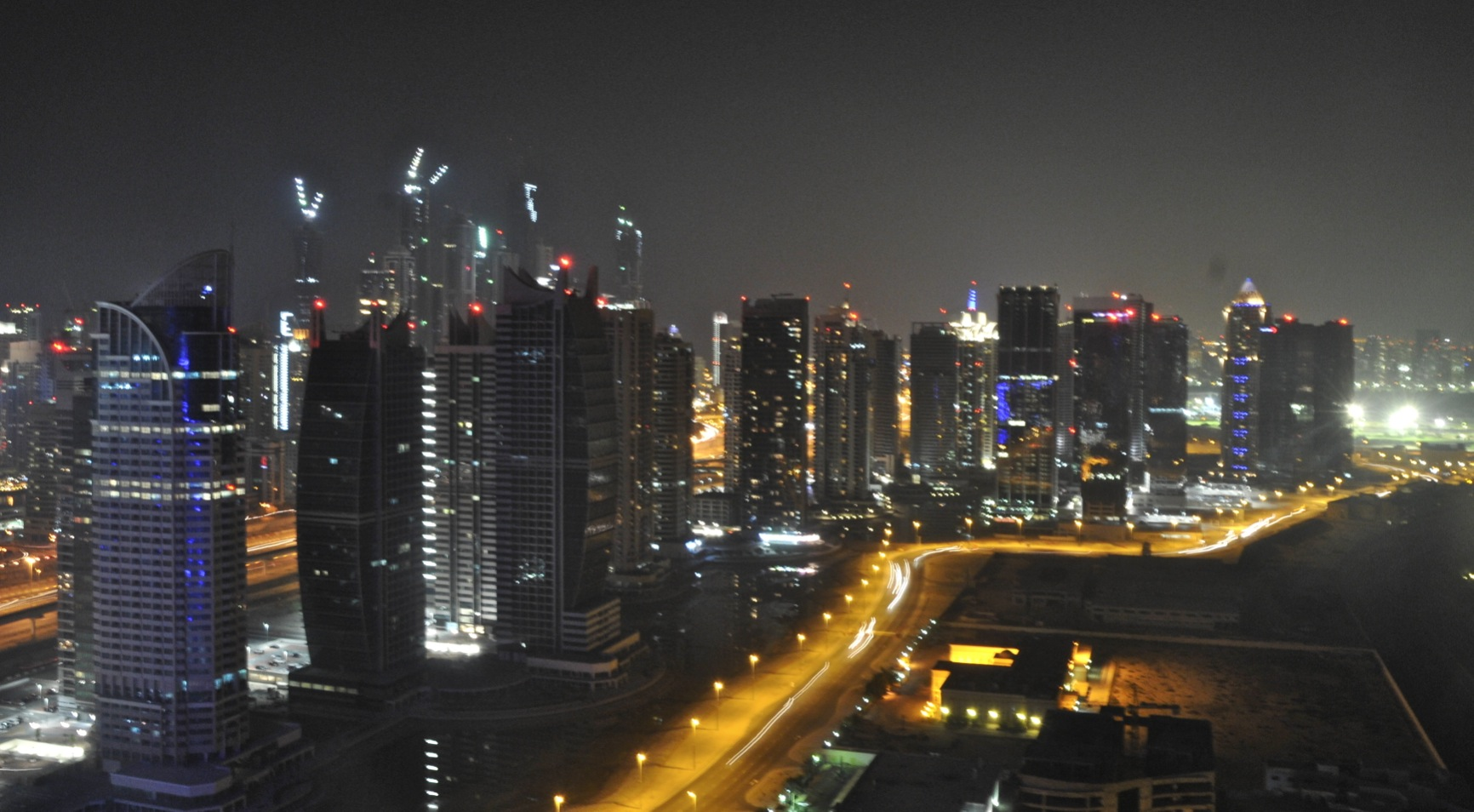 Lake Towers night lights, Dubai city.